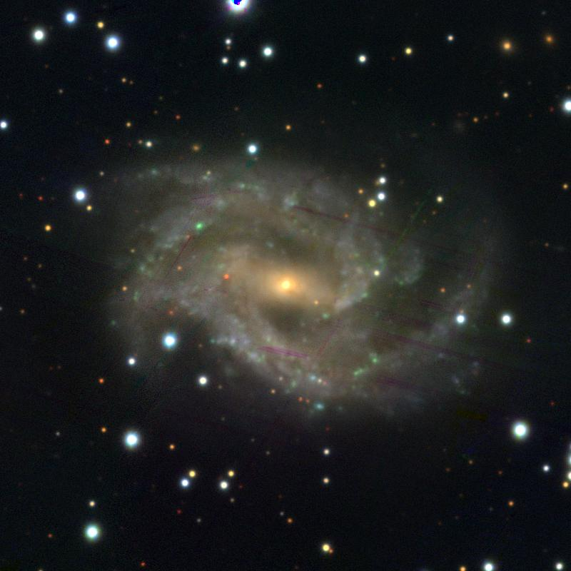 Color image of NGC 2525 created by the stacking of i, r, and g filter images provided by PanSTARRS-1 archive.